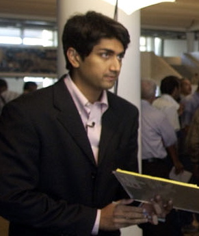 Aneesh Raman